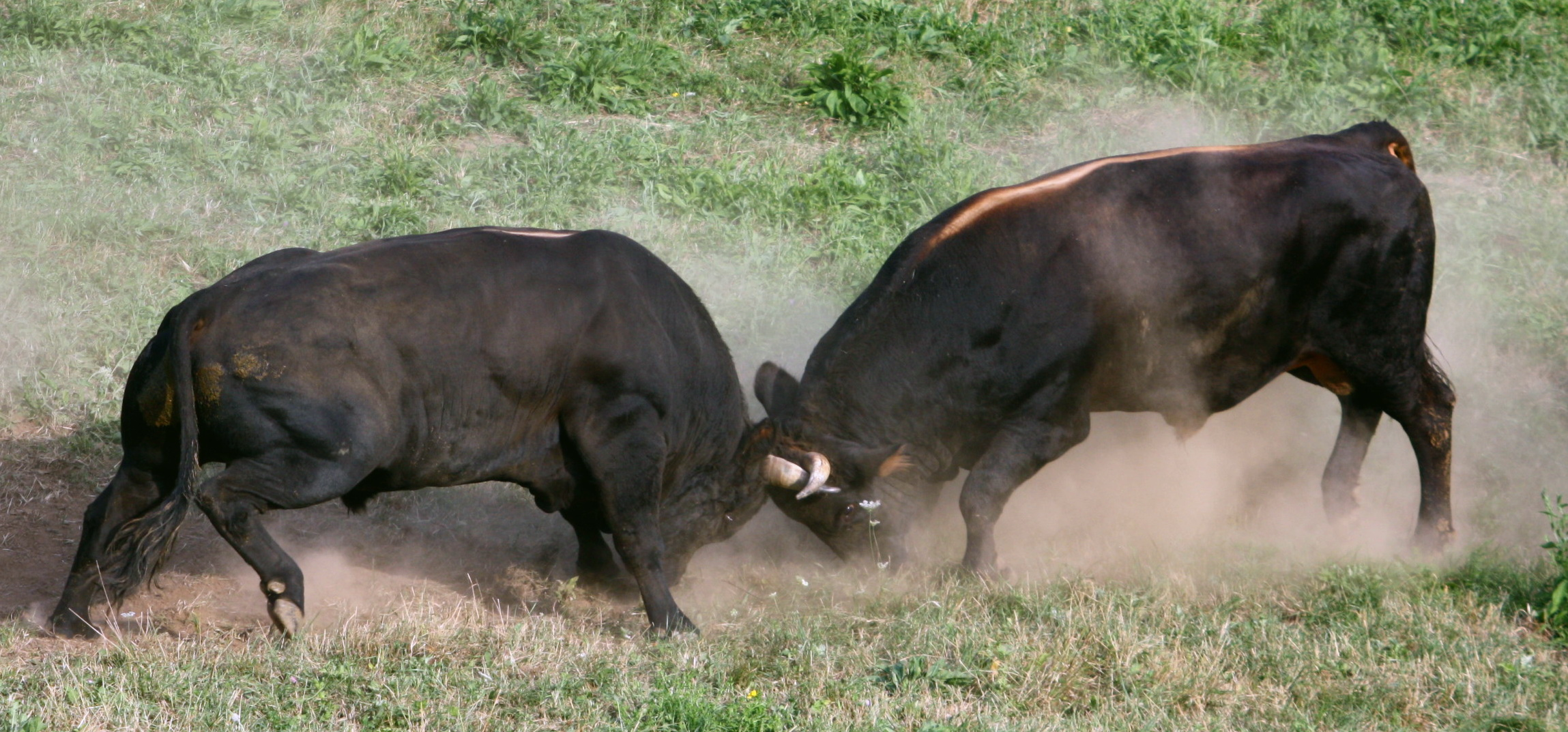 Bullfight (Korida) in Sanski Most